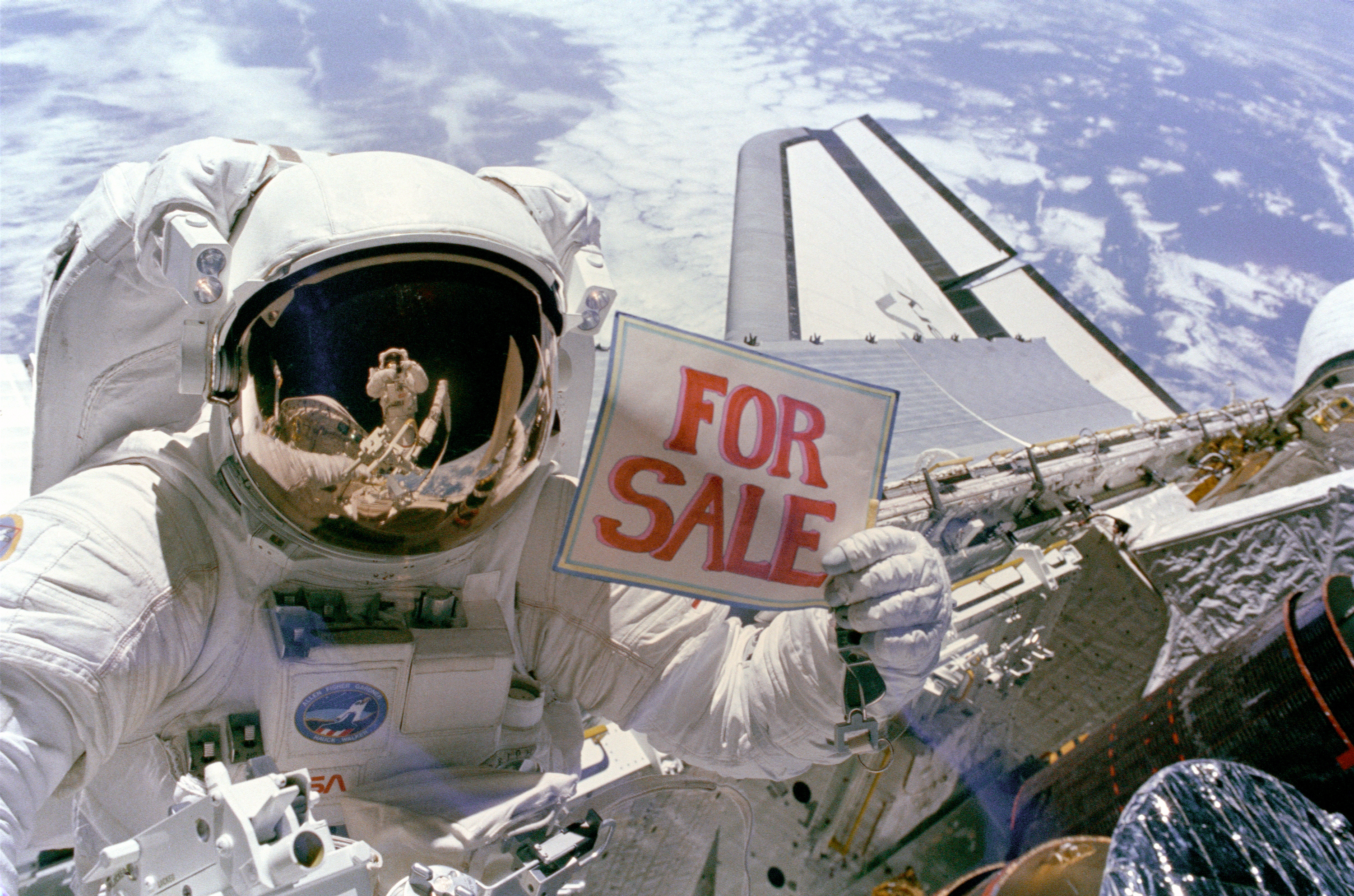 Astronaut Dale A. Gardner, having just completed the major portion of his second extravehicular activity (EVA) period in three days, holds up a "For Sale" sign refering to the two satellites, Palapa B-2 and Westar 6 that they retrieved from orbit after their Payload Assist Modules (PAM) failed to fire. Astronaut Joseph P. Allen IV, who also participated in the two EVAs, is reflected in Gardner's helmet visor. A portion of each of two recovered satellites is in the lower right corner, with Westar 6 nearer Discovery's aft.